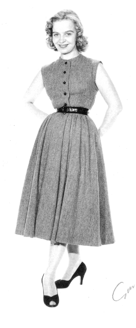 Publicity photograph of the Finnish actor Aino-Maija Tikkanen (1927–2014).